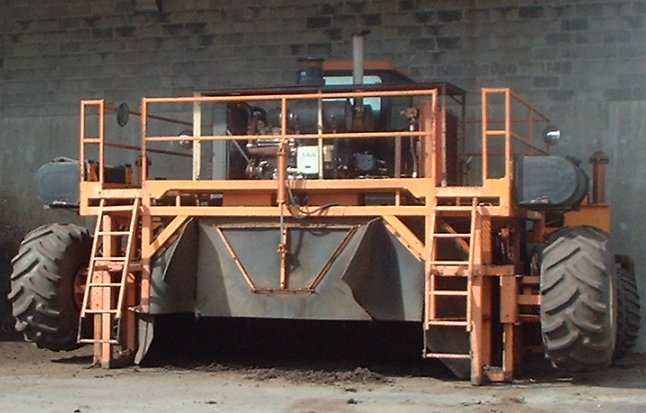 Municipal biosolids composting facility, windrow turner